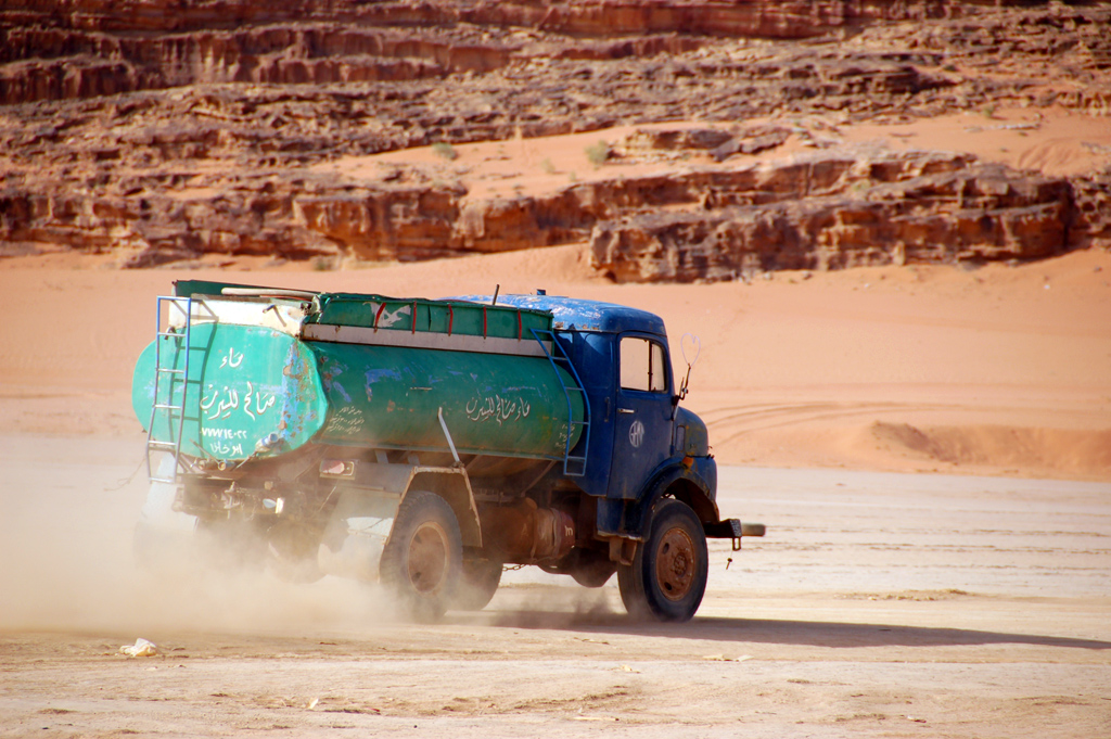 A water tank truck in Jordan.